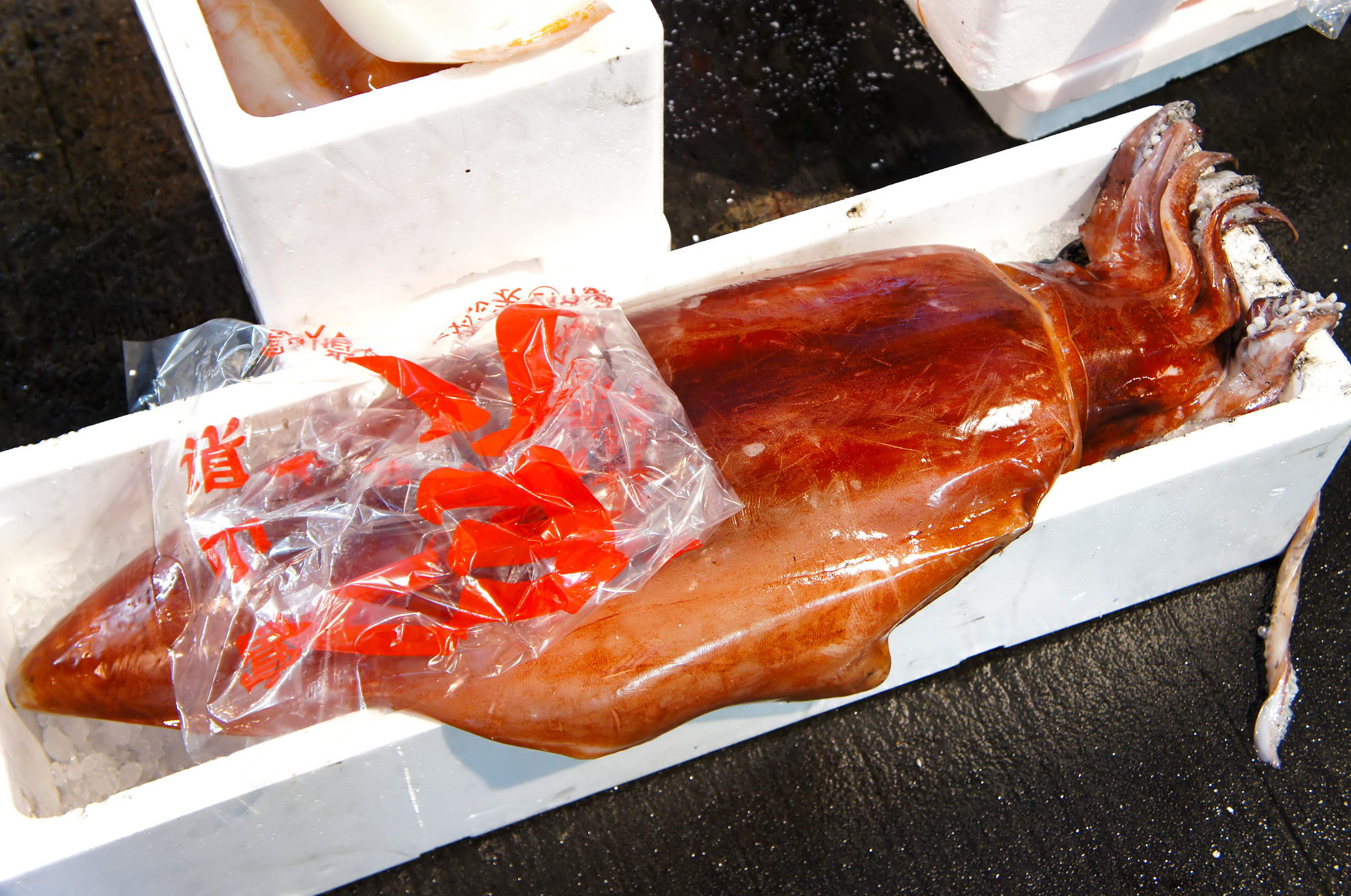 a picture of Thysanoteuthis rhombus sold at Ota market in Tokyo.